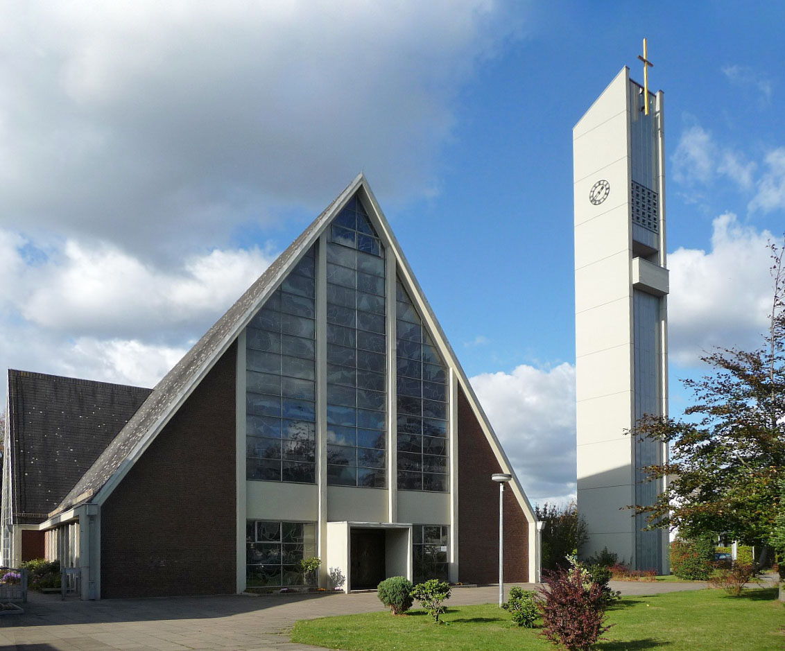 Melanchthon-Church in Bremen-Osterholz